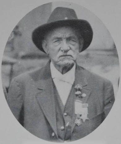 German-American MoH winner, John Hack